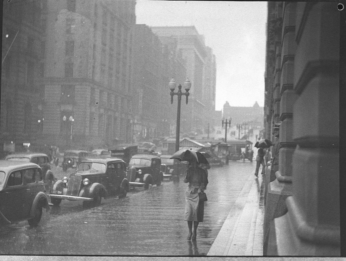 A rain event in Martin Place, Sydney (1937) by Sam Hood.